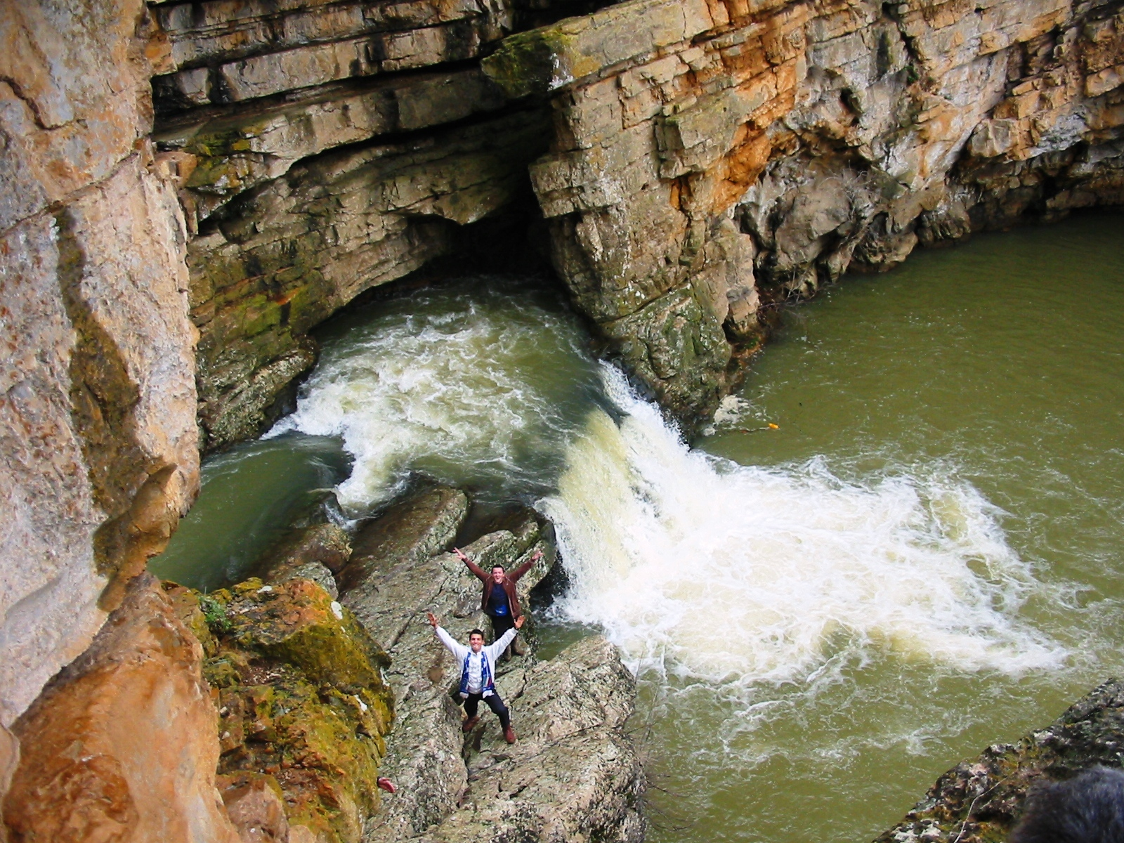 Hiking at Mirusha - Kosovo